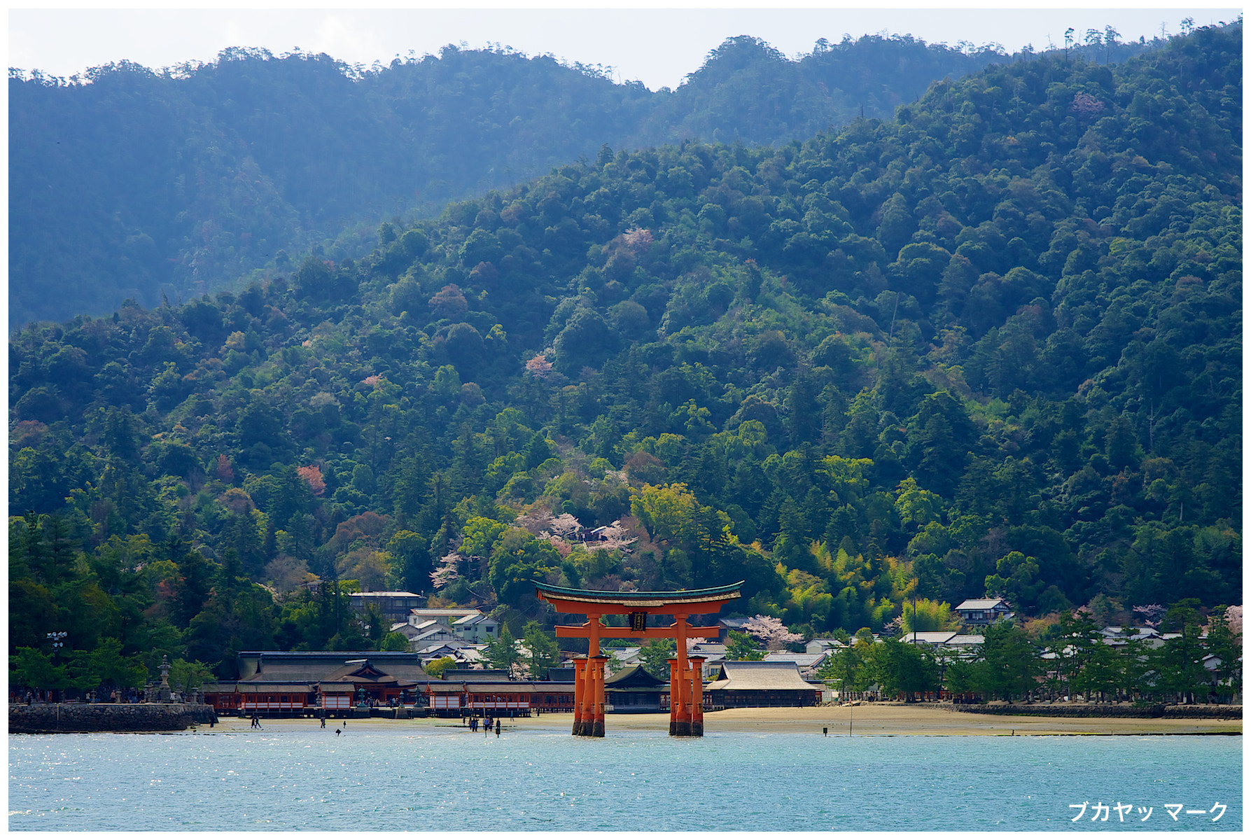 500px provided description: Approaching Miyajima on a JR Ferry [#japan ,#torii ,#miyajima]